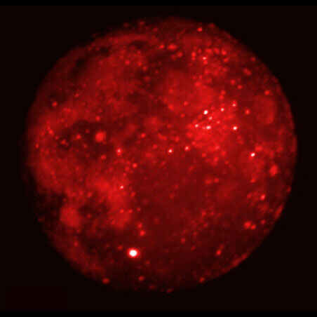 The mid-infrared image of the Moon was taken during a 1996 lunar eclipse by the SPIRIT-III instrument aboard the orbiting Midcourse Space Experiment satellite. At these wavelengths, MSX was able to characterize the thermal (heat) distribution of the lunar surface during the eclipse. The brightest regions are the warmest, and the darkest areas are the coolest. The well-known crater Tycho is the bright object to the south of center. Numerous other craters are also seen as bright spots, indicating that their temperature is higher than in the surrounding dark mare. The Moon is geologically inactive for the most part, and any temperature differences are a result primarily of variations in solar heating (rather than volcanoes, for example). The Moon lacks an atmosphere to moderate temperatures, which can vary from 130 degrees Celsius (265 degrees Fahrenheit) in the sun to -110 degrees Celsius (-170 degrees Fahrenheit) in the shade.